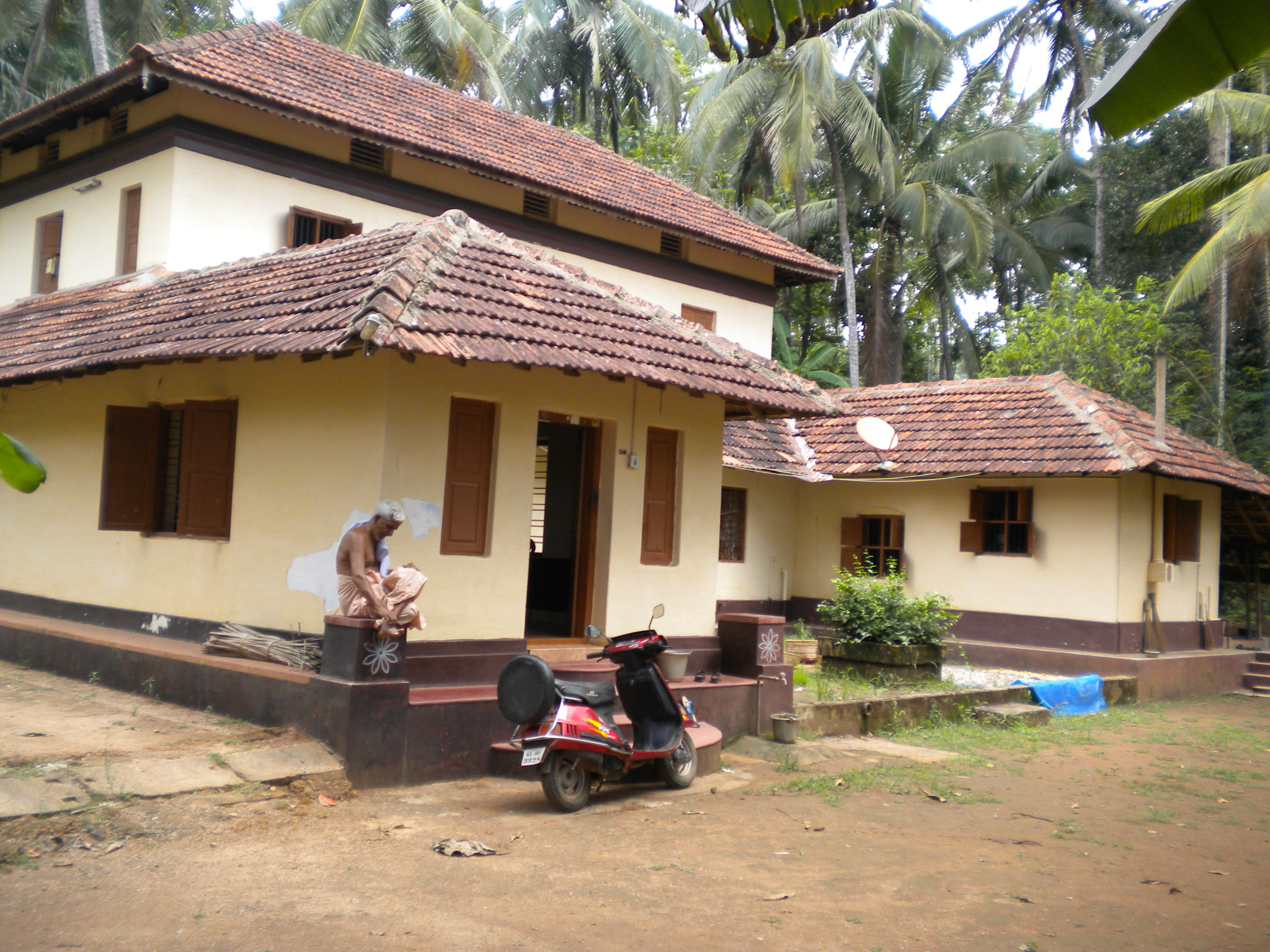 Adakkapputhur House